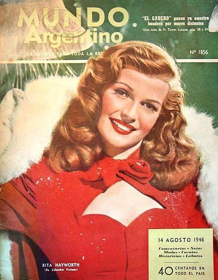 Rita Hayworth on the cover of an Argentinian magazine